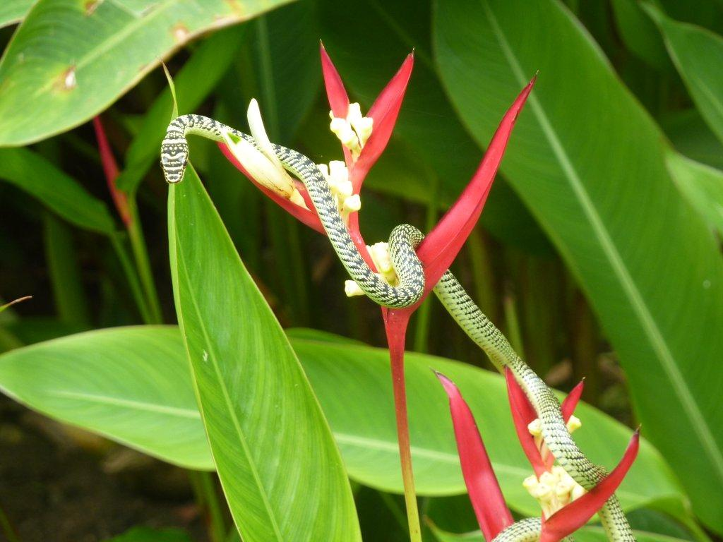 Chrysopelea ornata or "the golden tree snake. Taken in Bangtao Beach, Laguna Phuket.